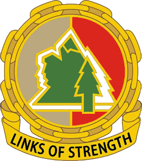 167th Support Battalion Distinctive Unit Insignia